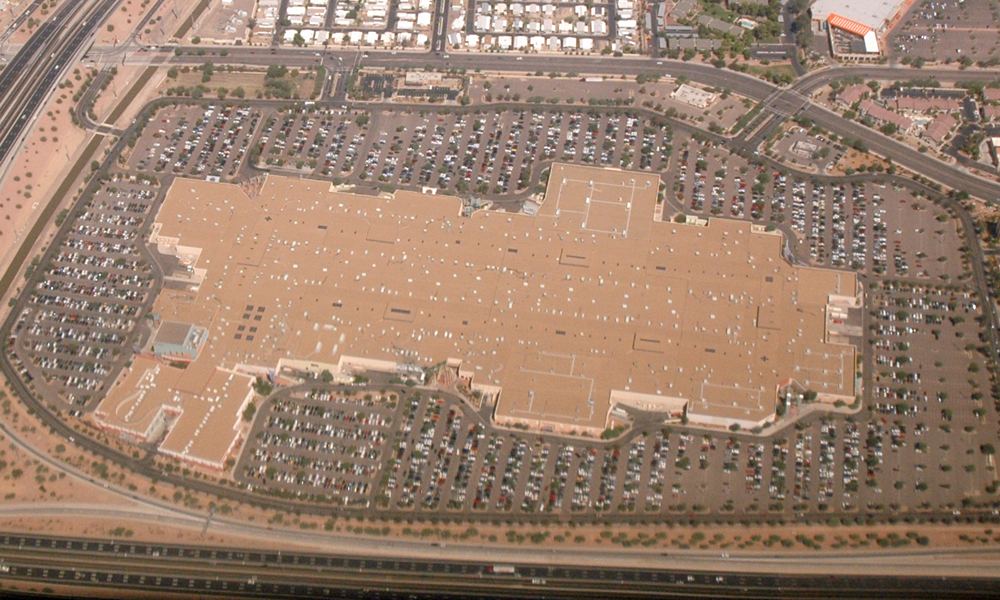 Arizona Mills Mall, in Tempe, Arizona